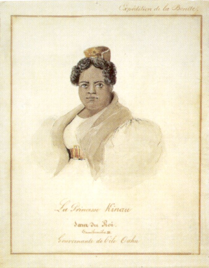 Princess Kinau [of Hawaii], watercolor and ink wash over graphite by Barthélemy Lauvergne, 1836, Honolulu Academy of Arts